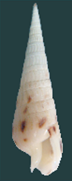 Shell of Oxymeris strigata (synonym : Acus strigatus).